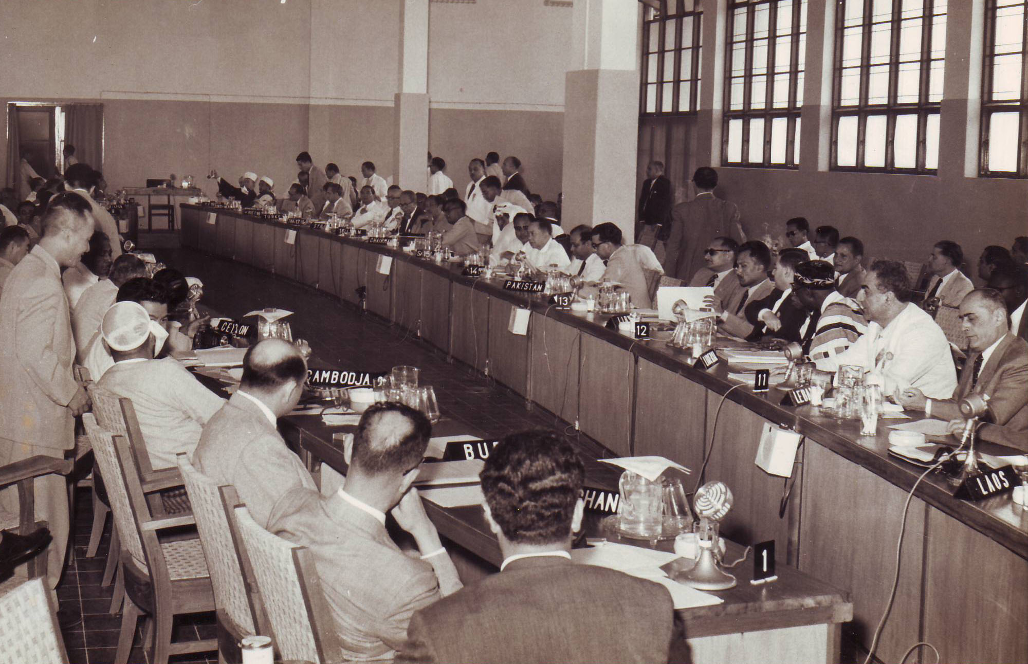 Delegations held a Plenary Meeting of the Economic Section during the African-Asian Conference in Merdeka Building, Bandung, on April 20th 1955.